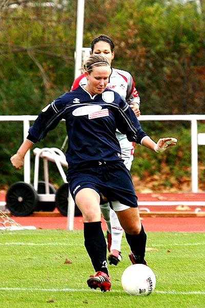 Jessica Kreuzer beim Bundesliga Spiel gegen Bad Neuenahr.